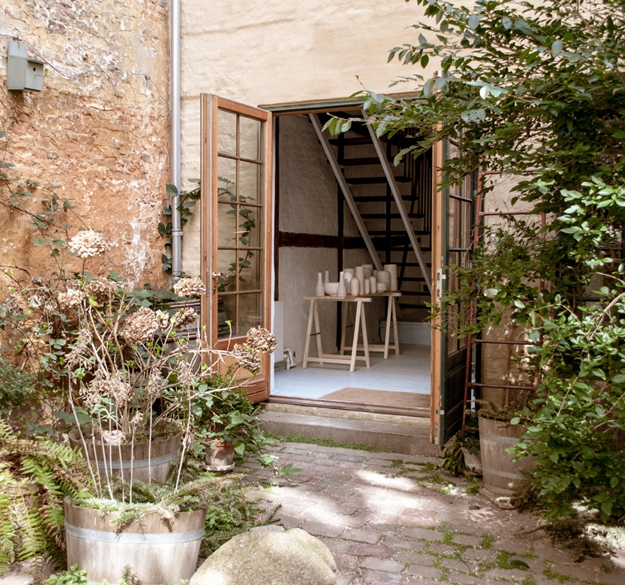 The entrance to the Tortus Copenhagen studio at Kompagnistræde 23 in Copenhagen, Denmark